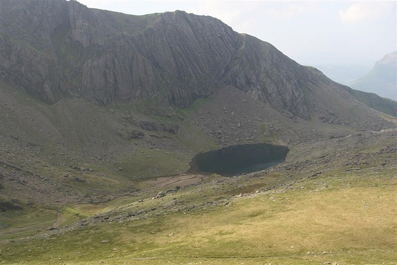 Llyn Du'r Arddu, Yr Wyddfa, Gwynedd